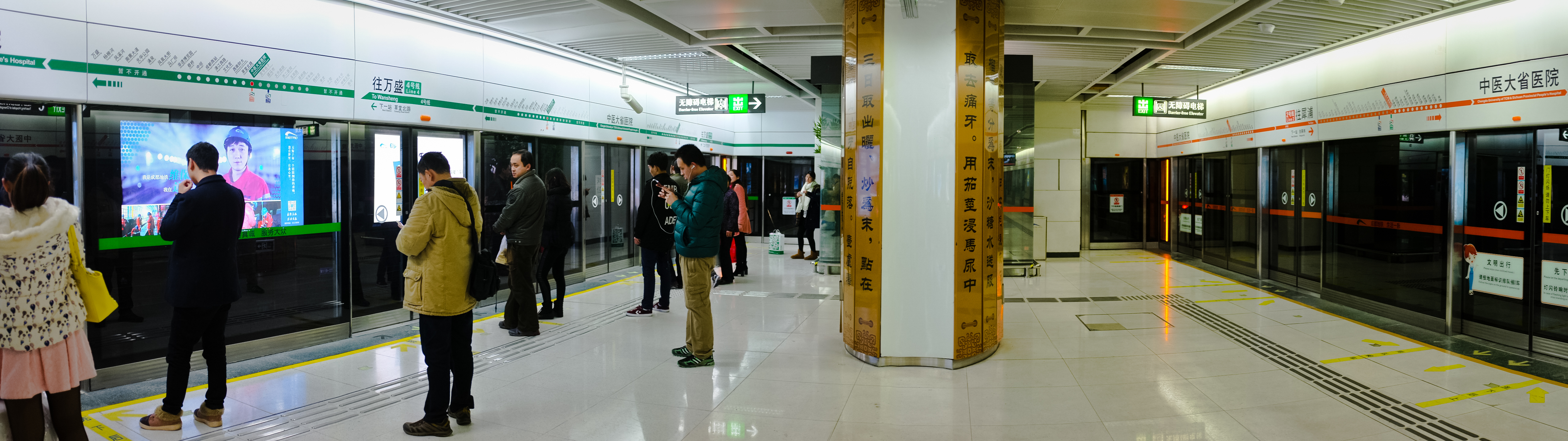 Platform of Chengdu University of TCM and Sichuan Provincial Hospital Station